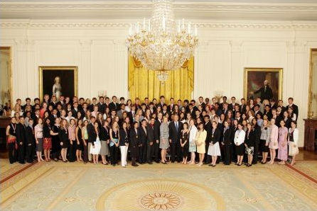 Transwiki approved by: User:Dmcdevit This image was copied from en. The original description was: This is a picture of the winners of the 2005 Presidential Scholars competition in the White House with George W. Bush and Margaret Spellings. All such images are in the public domain under U.S. law.